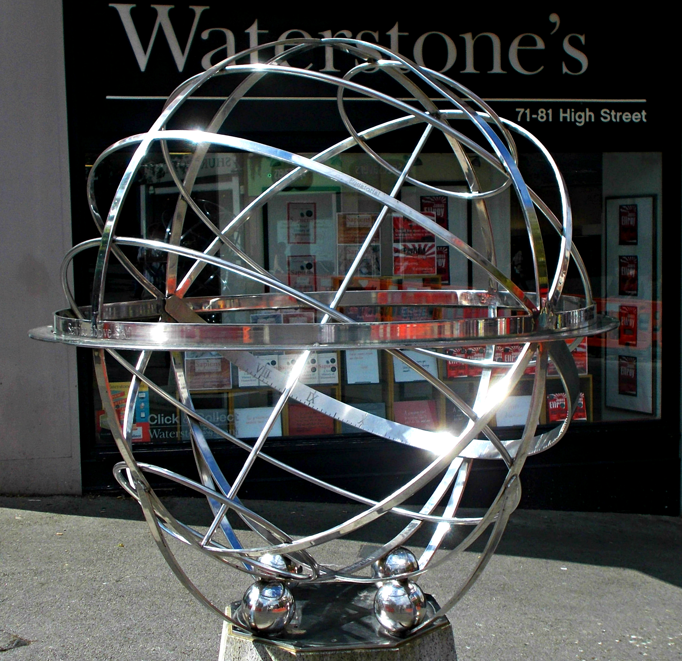 The Sutton Rotary Armillary, which was dedicated to the town in the year 2000 by the Rotary Club. It is in the form of an historical timepiece, and it serves three purposes: firstly, simply to tell the time; secondly, to commemorate time through various inscriptions including the Rotary motto "Service Above Self" and distances to nearby areas such as Kingston upon Thames; and thirdly, to commemorate the work which the Rotary Club has done.[73] The Sutton armillary is a popular feature of the town, and it continues to provide a focus for the town centre.[74] It will remain as a permanent memorial, marking not just the new millennium but also the central part that the Rotary has played in the welfare of Sutton since 1923. It was originally installed in the centre of a small "Millennium Garden", but was slightly re-positioned in 2011, since when it has stood on the edge of the new central square in the town, directly in front of a bookshop.